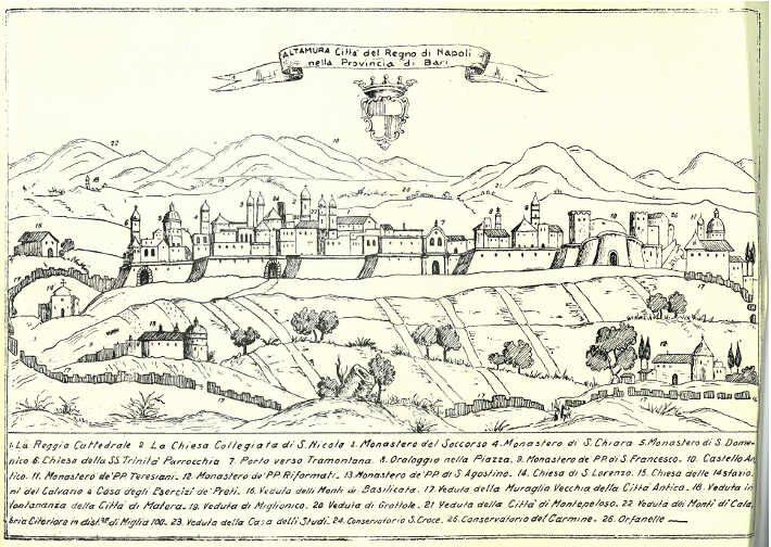 Illustration of the city of Altamura - 1770